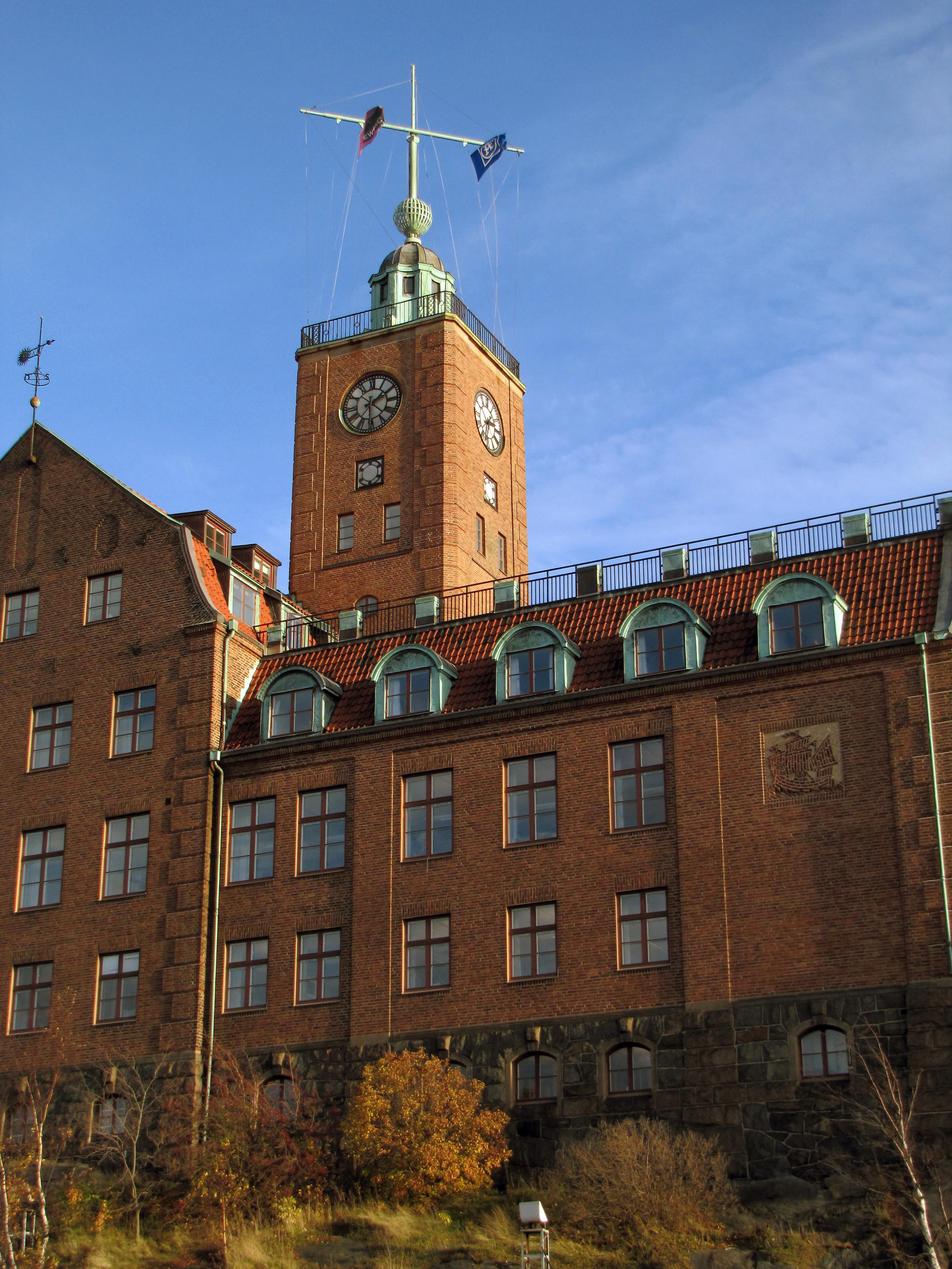 The tower of the Navigation school building in Göteborg, Sweden. A time ball is at the top of the tower.